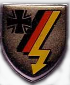 Internal coat of arms Stabskompanie Fürhrungs-Unterstützungsbrigade 900 (StKp FüUstBrig 900) of the Bundeswehr (Armed Forces of the Federal Republic of Germany). → Remarks on naming and categorization scheme